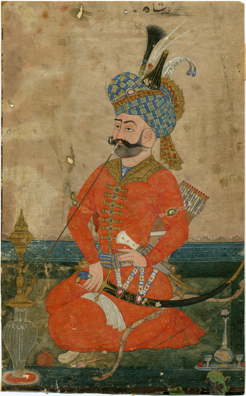 Abbas II